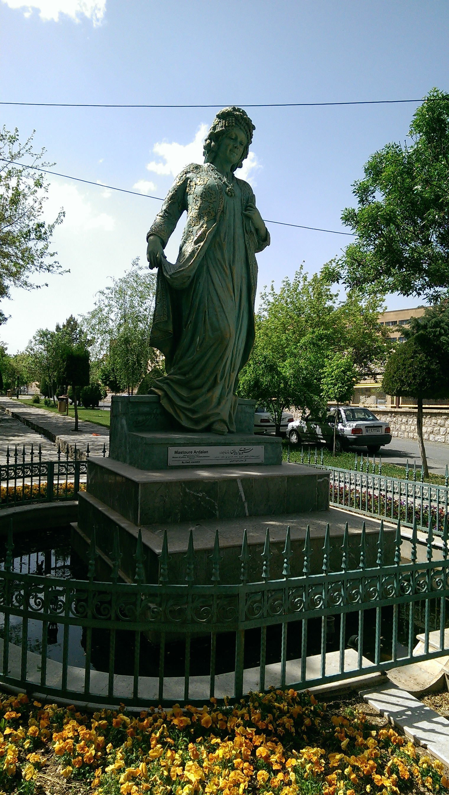 A sculpture of Mesture in Sine, Kurdistan.